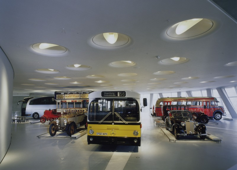 Mercedes-Benz bus (reg. S-DZ 6070) in Mercedes-Benz-Museum, Stuttgart, Germany.